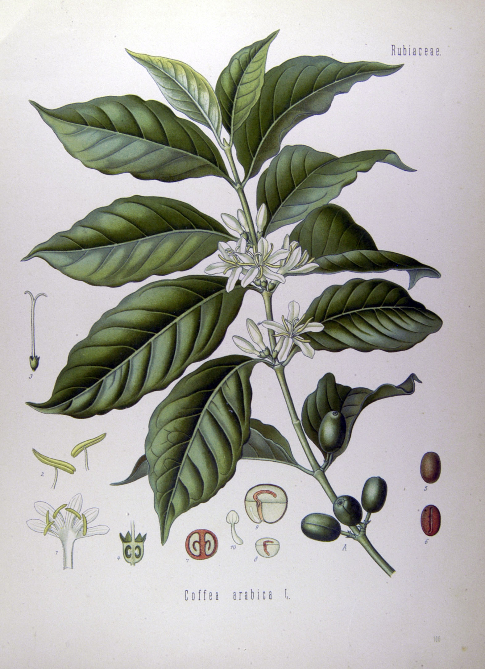 Coffea arabica from Köhler's Medizinal-Pflanzen in naturgetreuen Abbildungen mit kurz erläuterndem Texte.